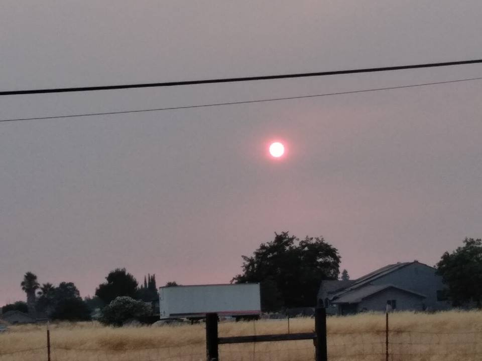 Photograph of smoke produced by 2018 California wildfires over Sacramento, CA on August 3, 2018. Photo was taken at approximately 7:30 PM local time, looking toward the west. The sun was dim and had a strong reddish-orange color that was not fully captured by the camera.